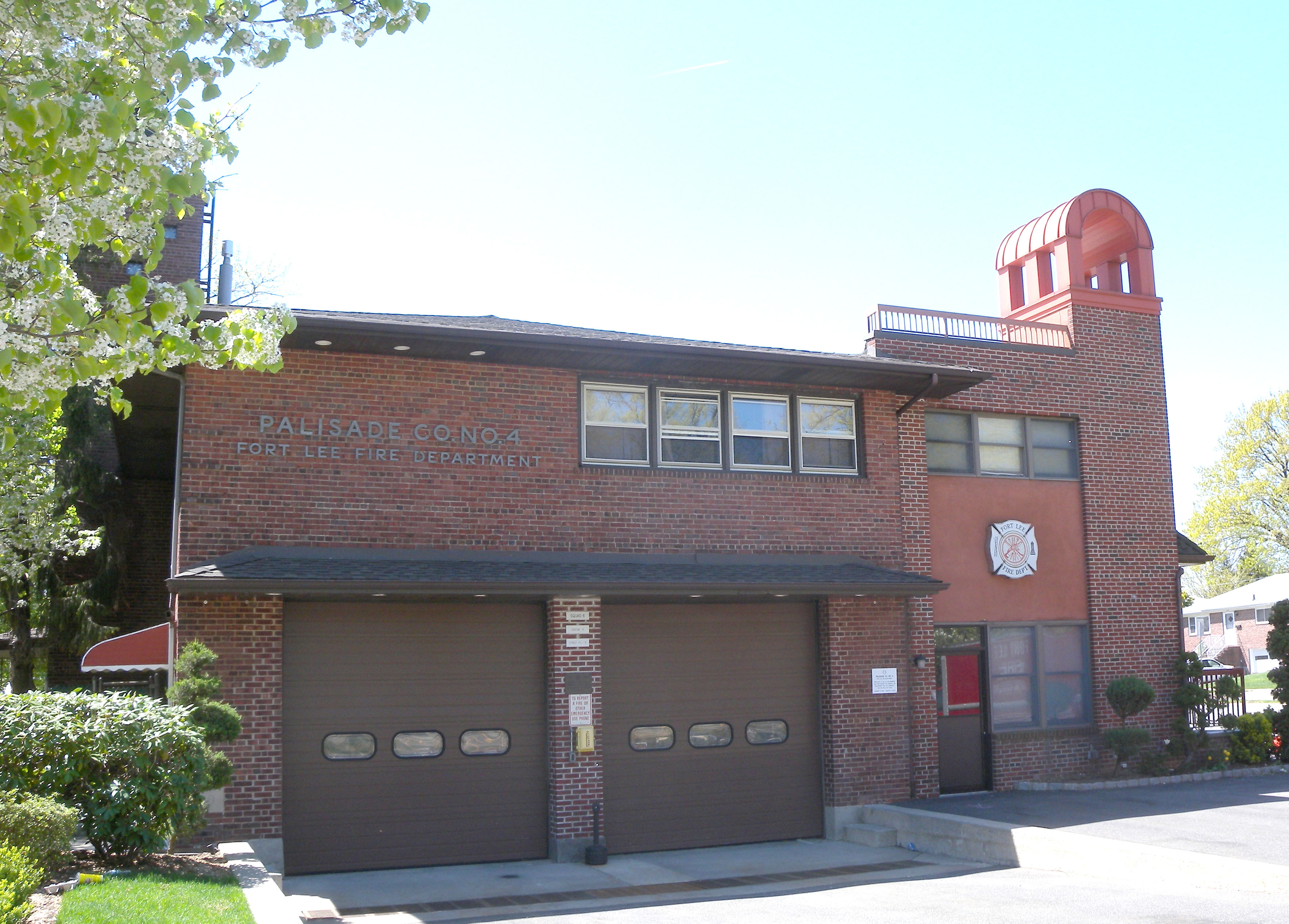 Loooking southwest at Palisade Company #4 on a sunny midday.